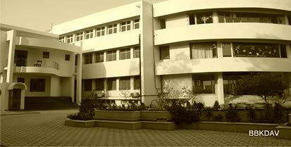 BBK DAV College is an affiliated college to GNDU Amritsar